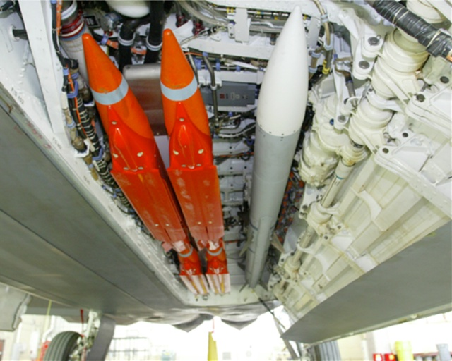 F-22A Raptor with four GBU-39 and one AIM-120